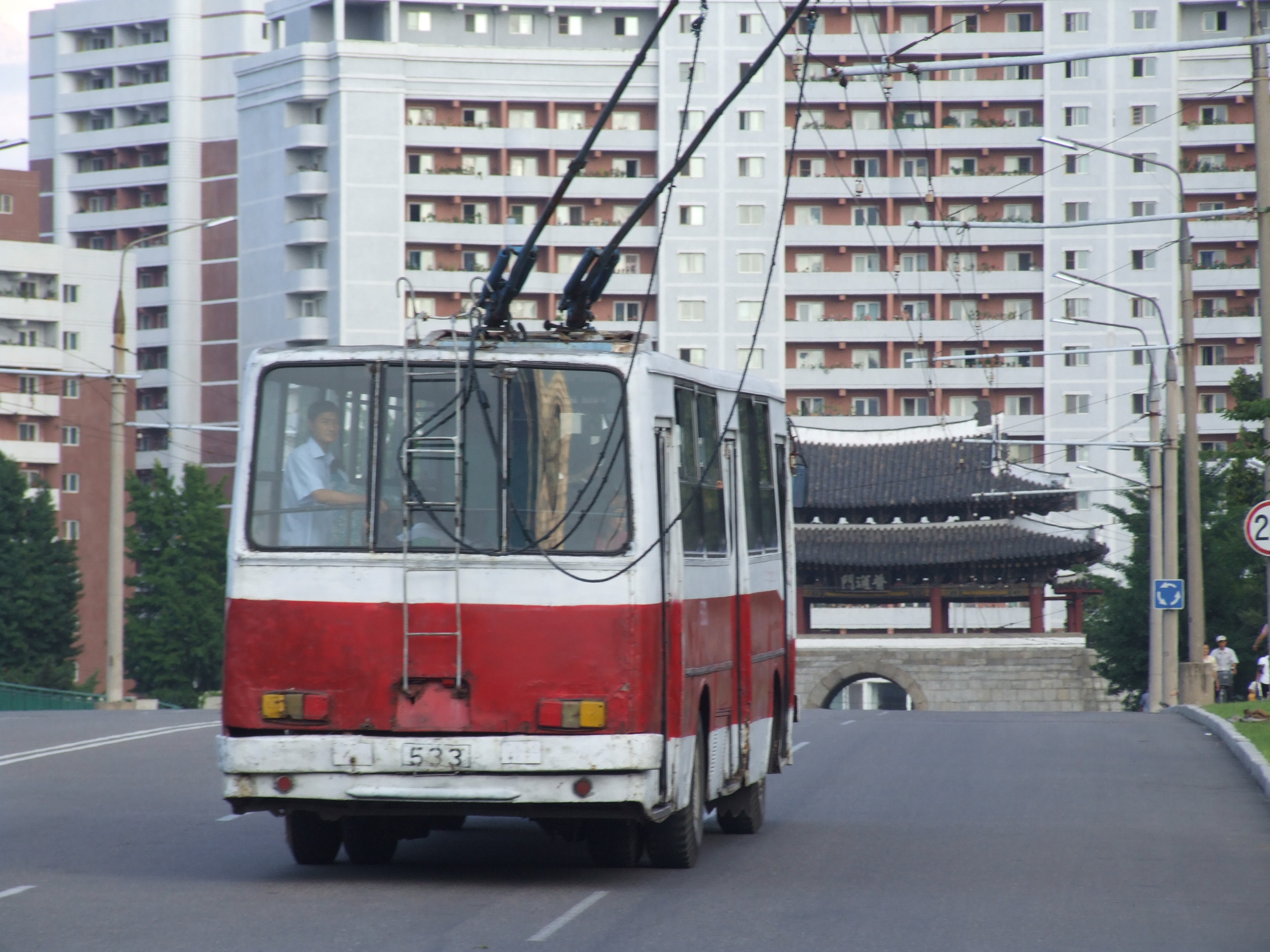 Bus in Pyongyang